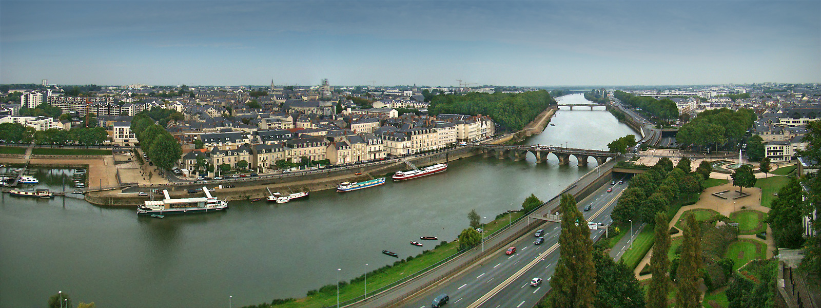 Angers, Maine-et-Loire, Pays de la Loire, France. The banks of the Maine seen from the Château d'Angers, with the Verdun bridge in the foreground.